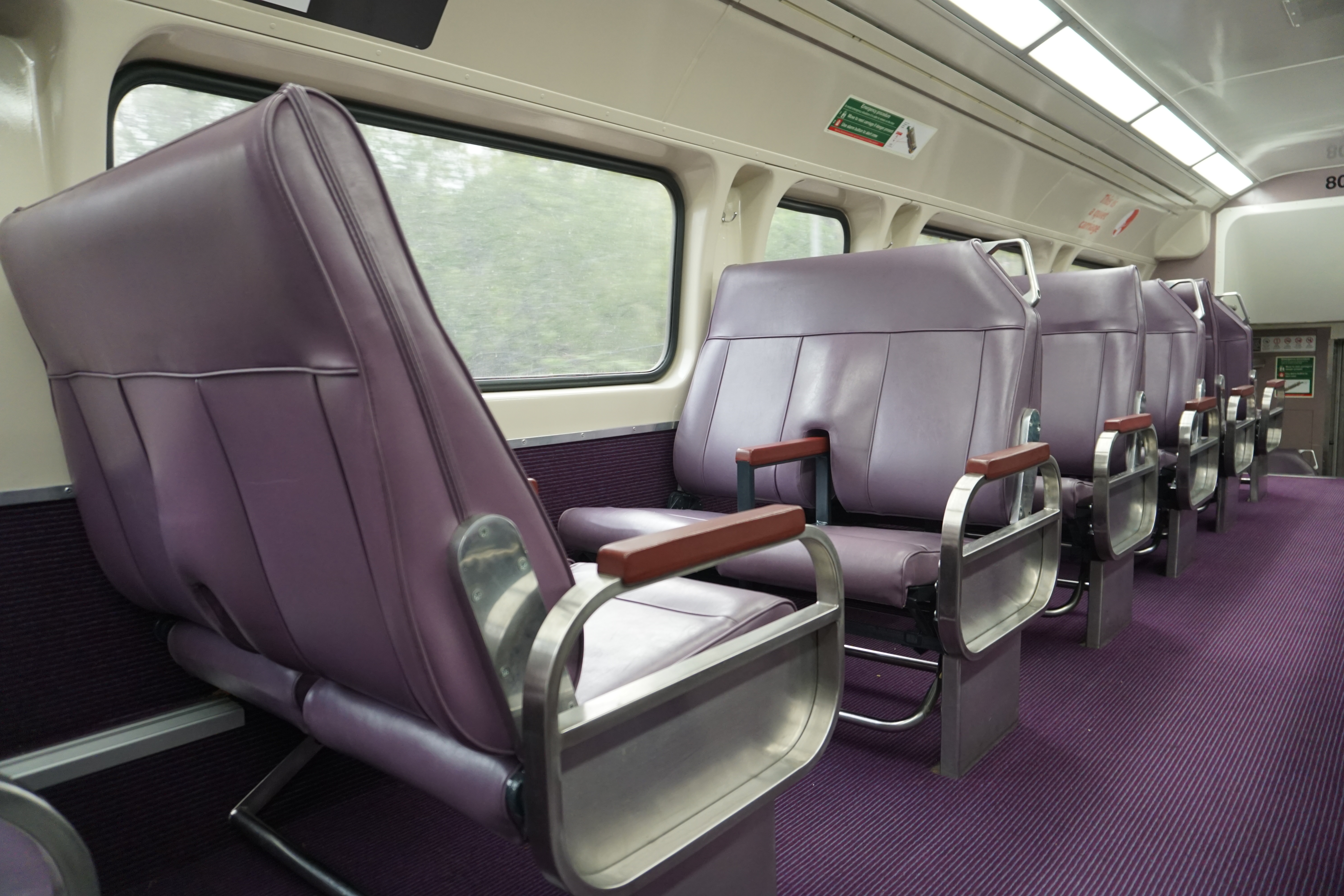 NSW Trainlink V Set Interior